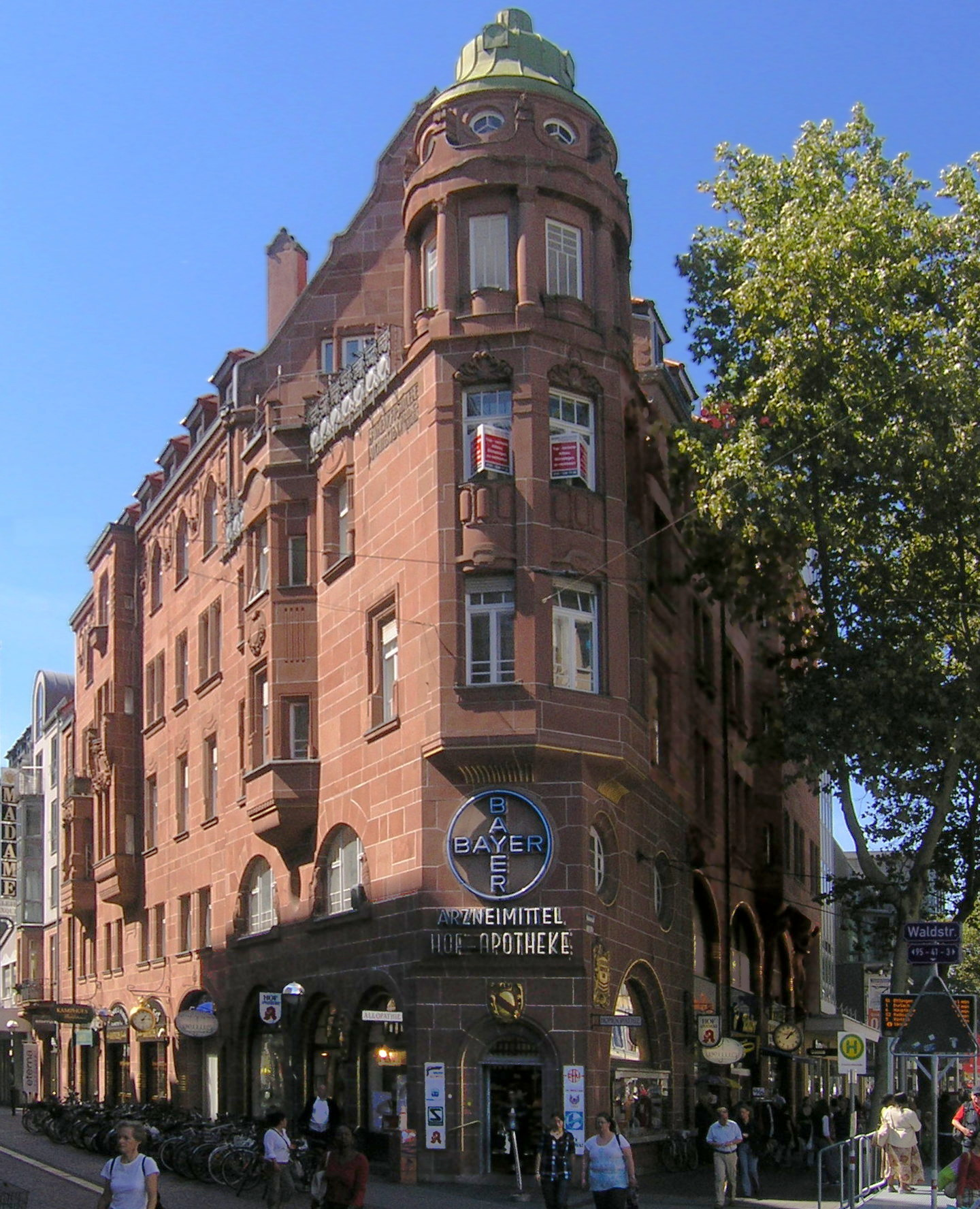 Court Pharmacy in Karlsruhe